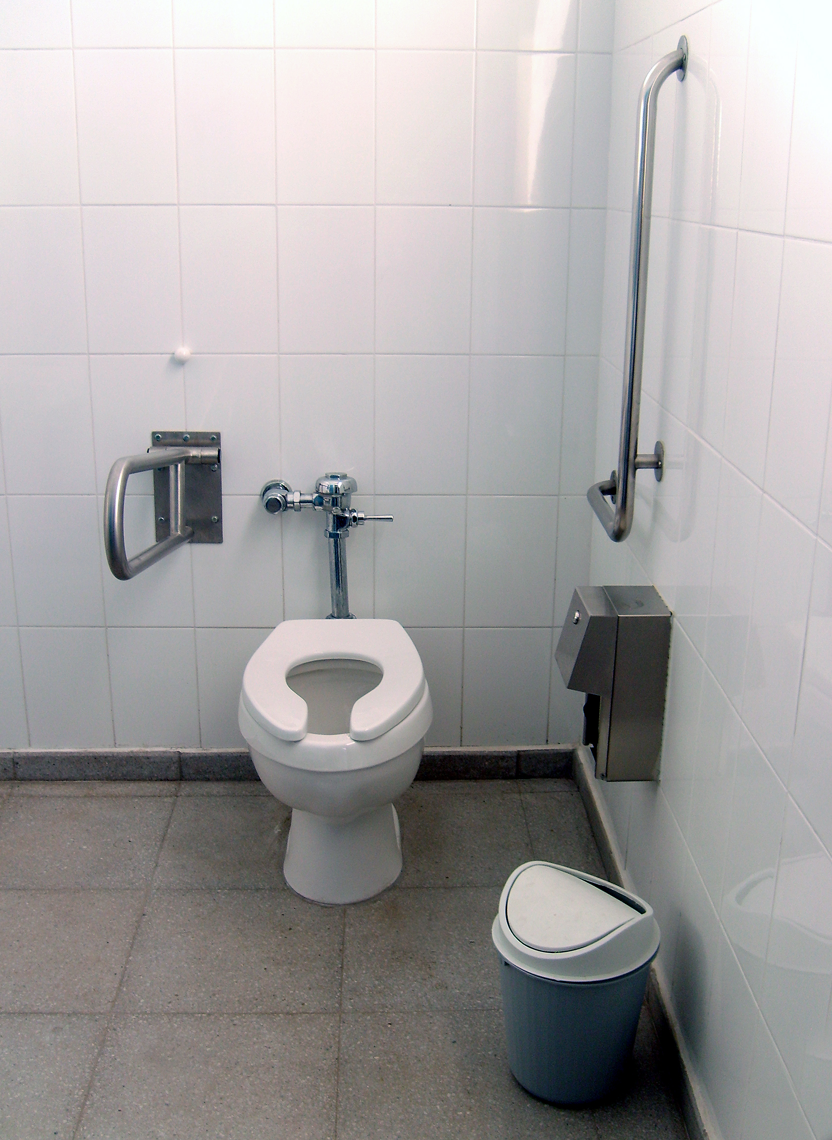 A public bathroom designed for disabled people. Maipú, Santiago de Chile.